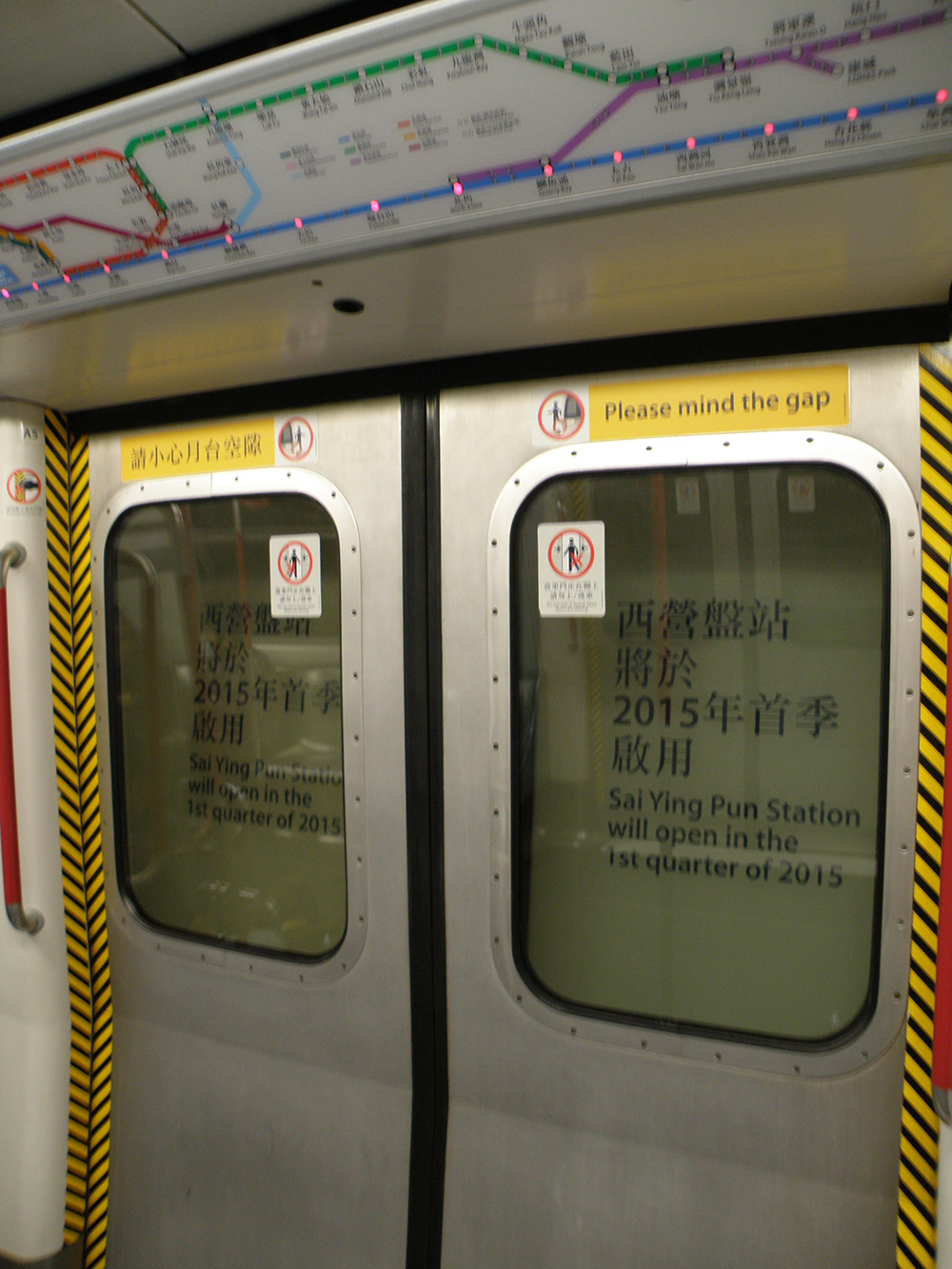 Sai Ying Pun Station in Sai Ying Pun, Hong Kong.